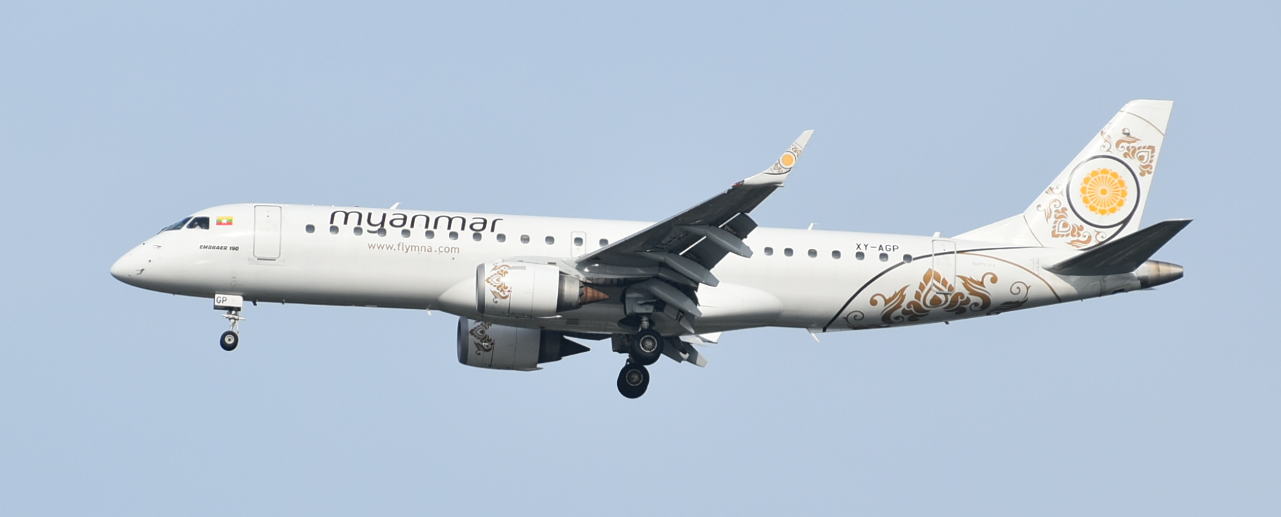 Embraer Emb-190 of Myanmar National Airlines on final approach to rwy.19R at Bangkok-BKK, Thailand, 28/10/16.